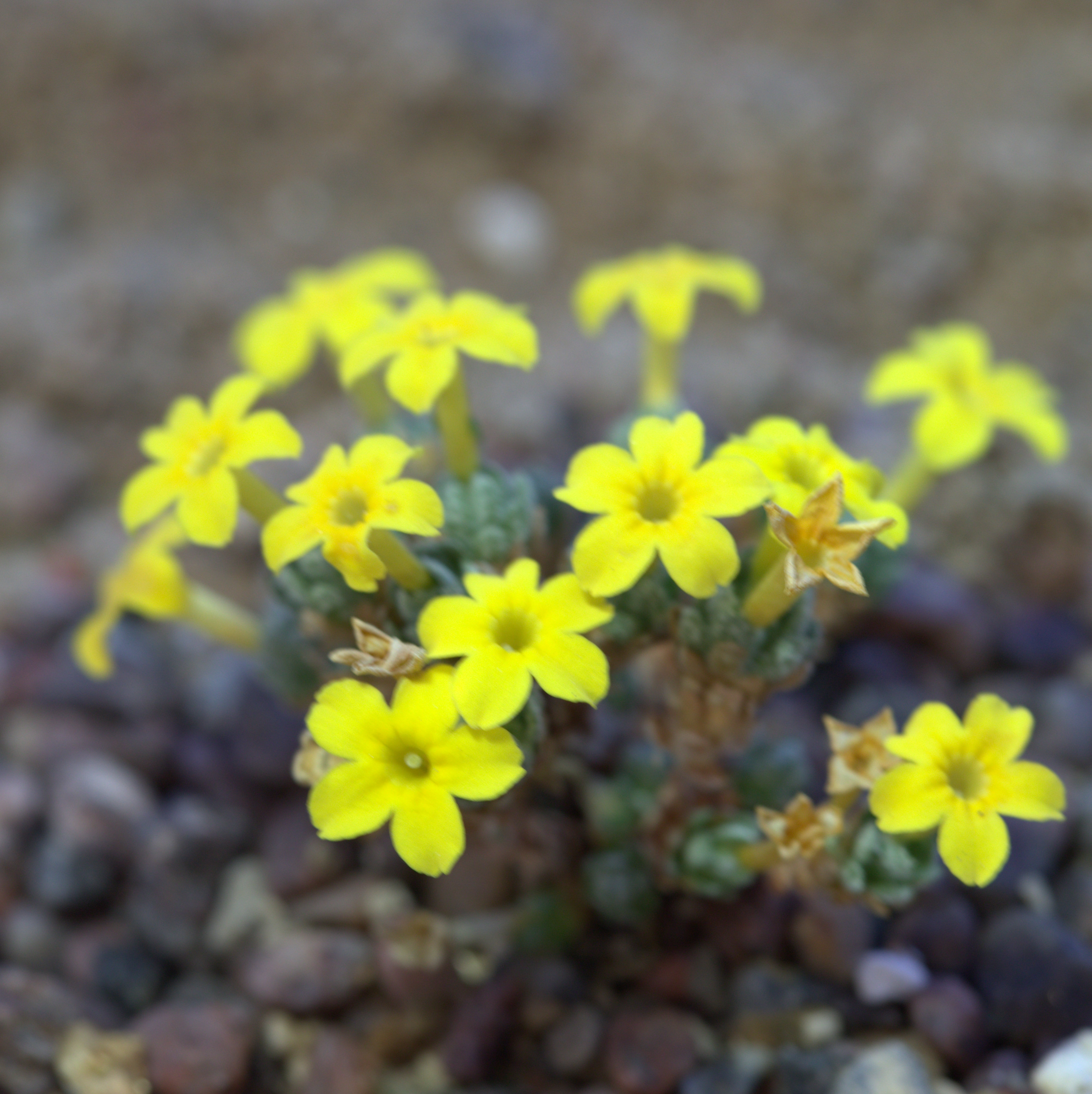 Dionysia denticulata at Gothenburg Botanical Garden in 2015. Plant id: GW/H